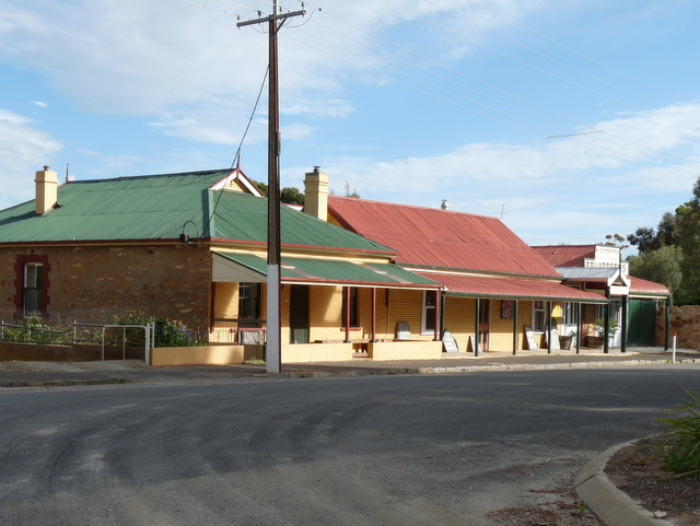 A couple of shops in the main street of Farrell Flat